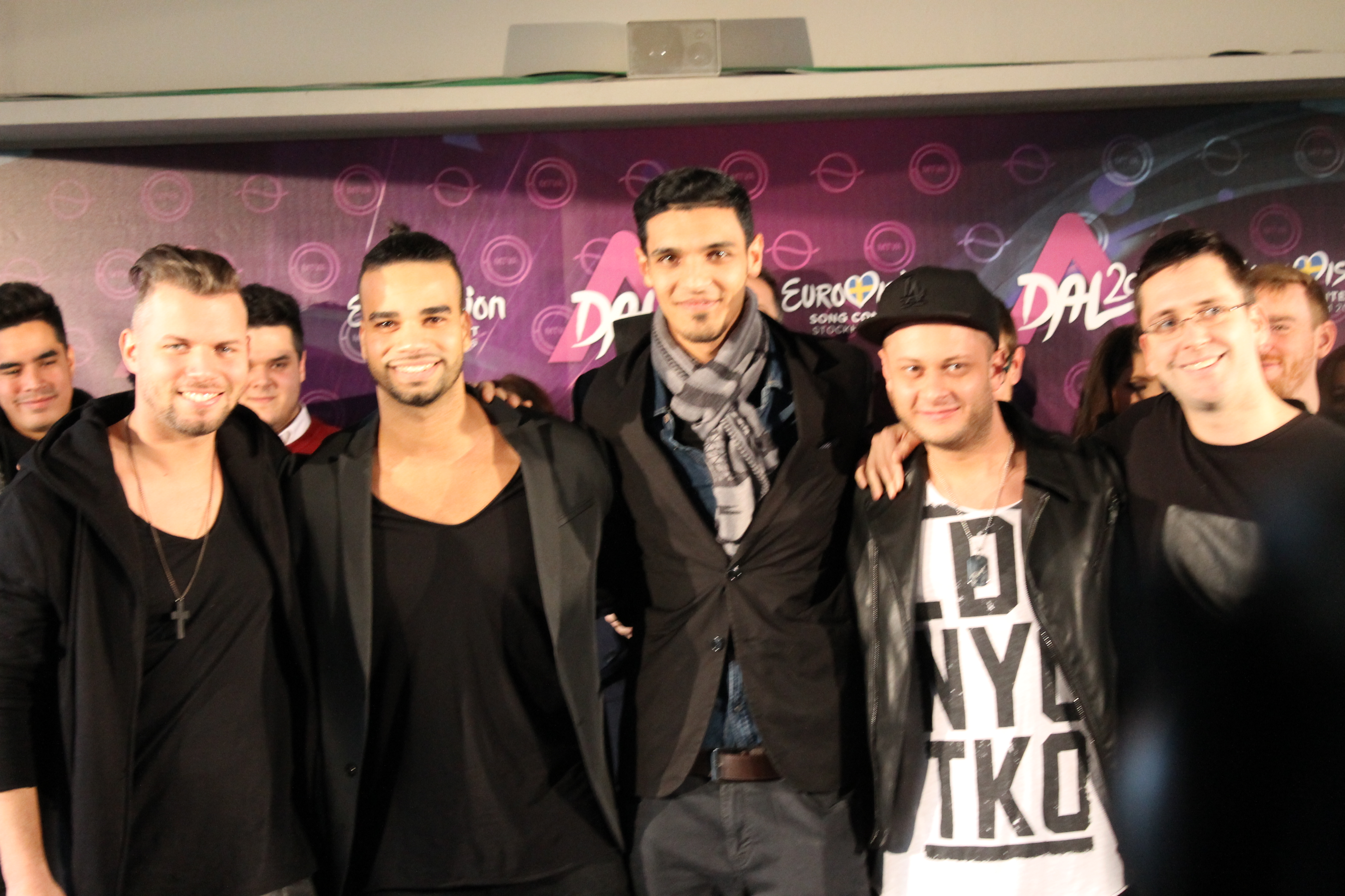 A Dal 2016 participant: Kállay Saunders Band